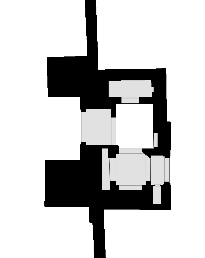 Floor plan of the Bab Doukkala gate in Marrakesh as it is seen today. The image is based on the floor plan(s) published in Allain & Deverdun (1957, "Les portes anciennes de Marrakech) and in Wilbaux (2001, "La médina de Marrakech"), while also consulting Google Earth satellite imagery to check some details. Note: the roofed/covered areas are shaded slightly darker than the open-air areas (white). However, the open-air space inside the gate, as seen here, is nowadays covered by a tiled wooden roof, which is visible in Google satellite imagery. Documentation of the gate in the 20th century makes it clear, however, that this space was not roofed over at that time. The roof was probably added in a recent restoration. Accordingly, I've drawn up the floor plan to portray this space as open to the sky since this reflects the historical state of the gate (even up to modern times).